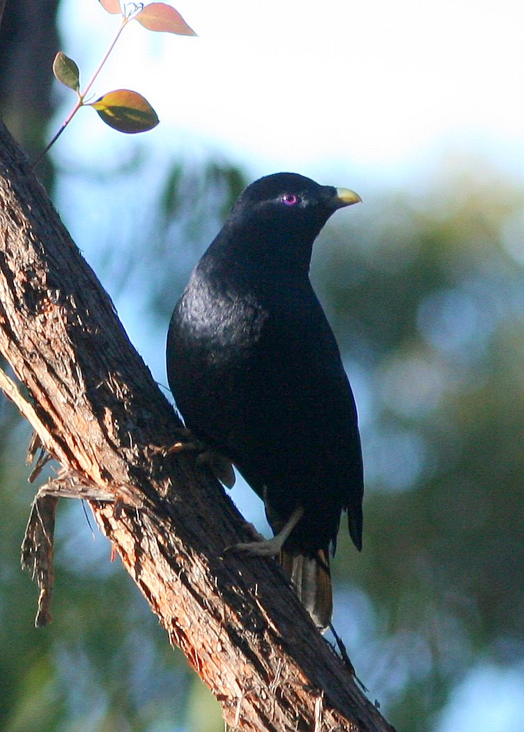 Satin Bowerbird, Ptilonorhynchus violaceus